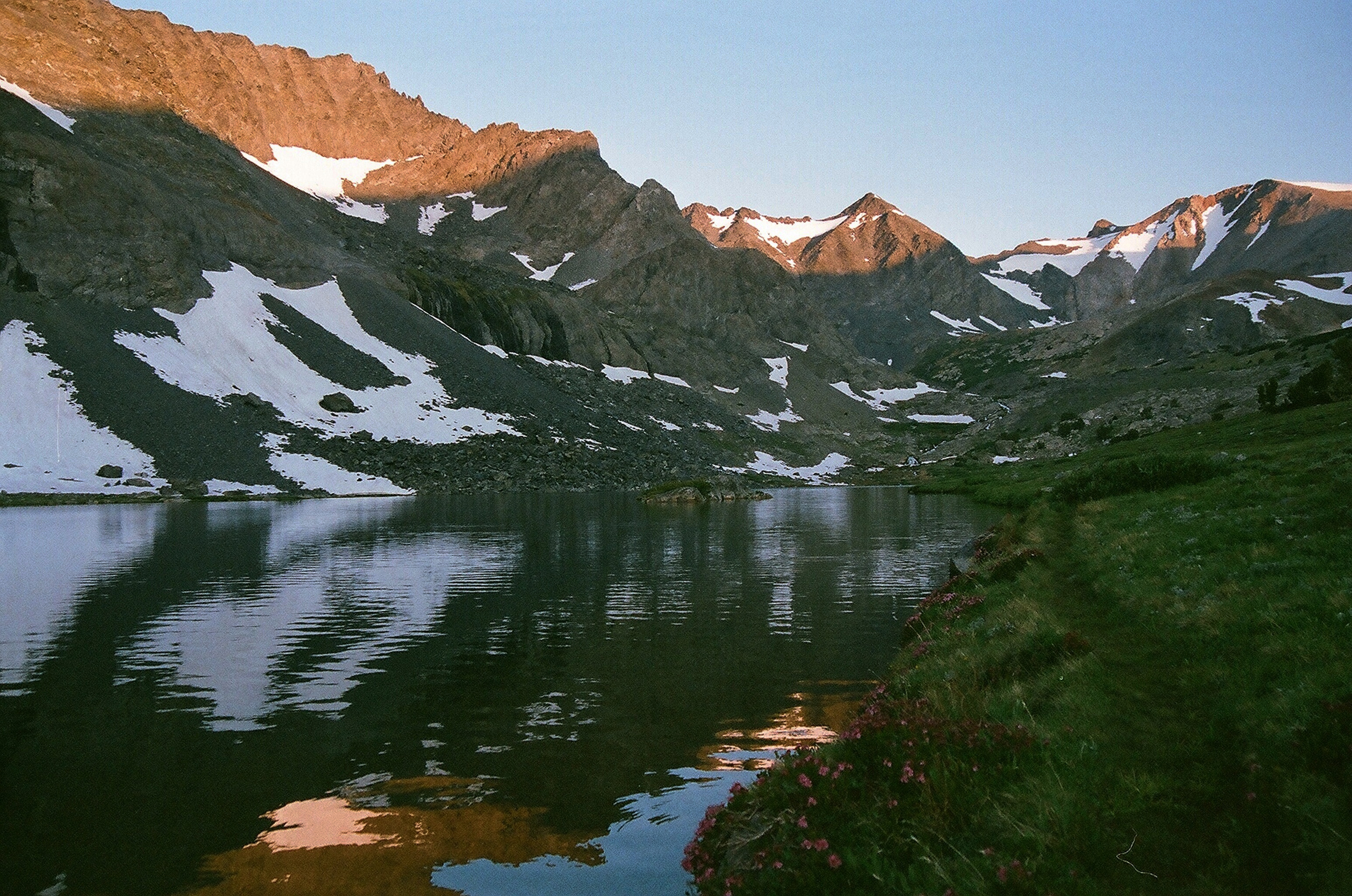 A view of Upper Alger Lake at sunrise